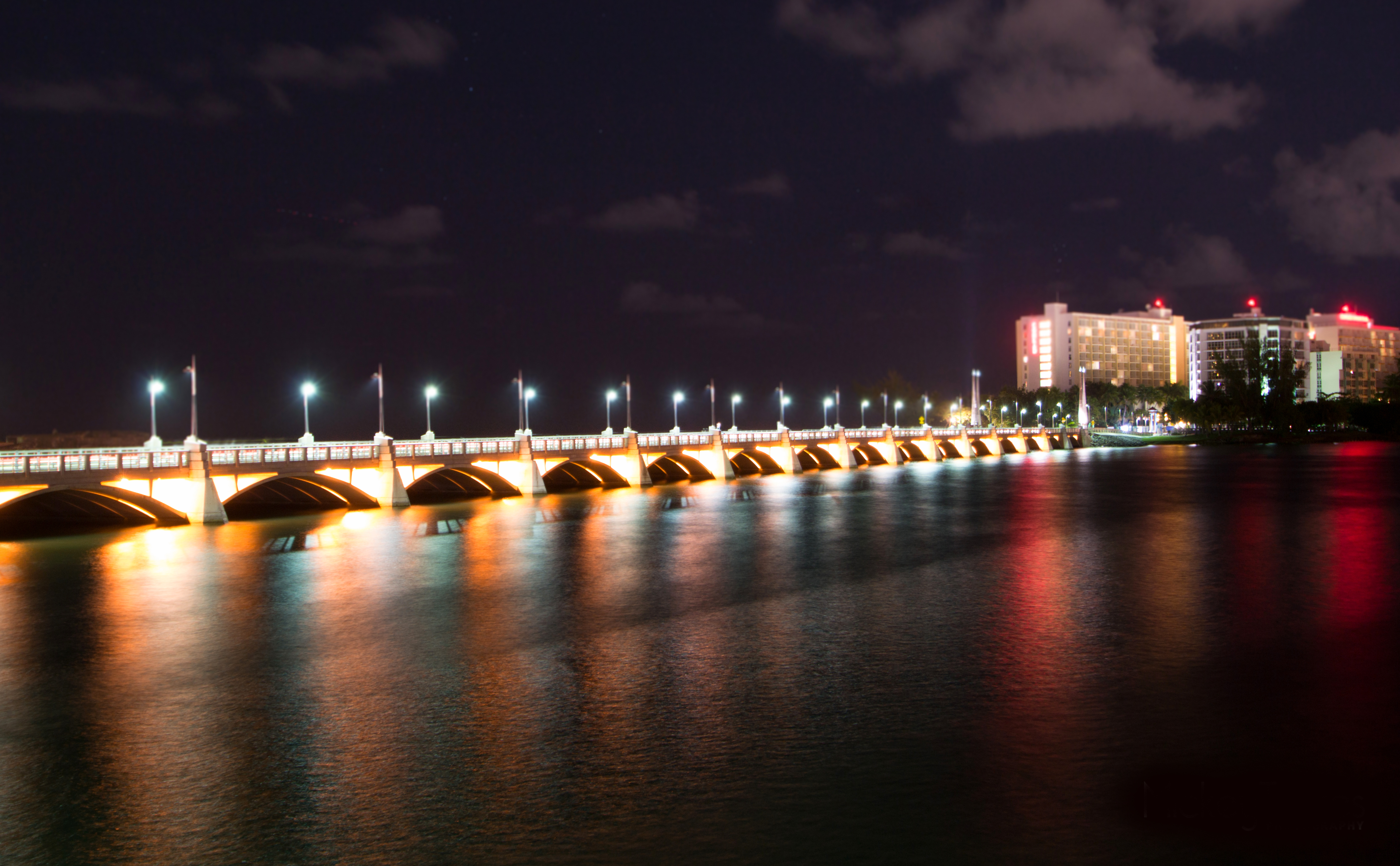 The bridge numbered 1755 of the Puerto Rico Highways and Transportation Authority (PRHTA) that connects the peninsula of Condado with the Old San Juan islet — Photo by Mickey Torres Photography